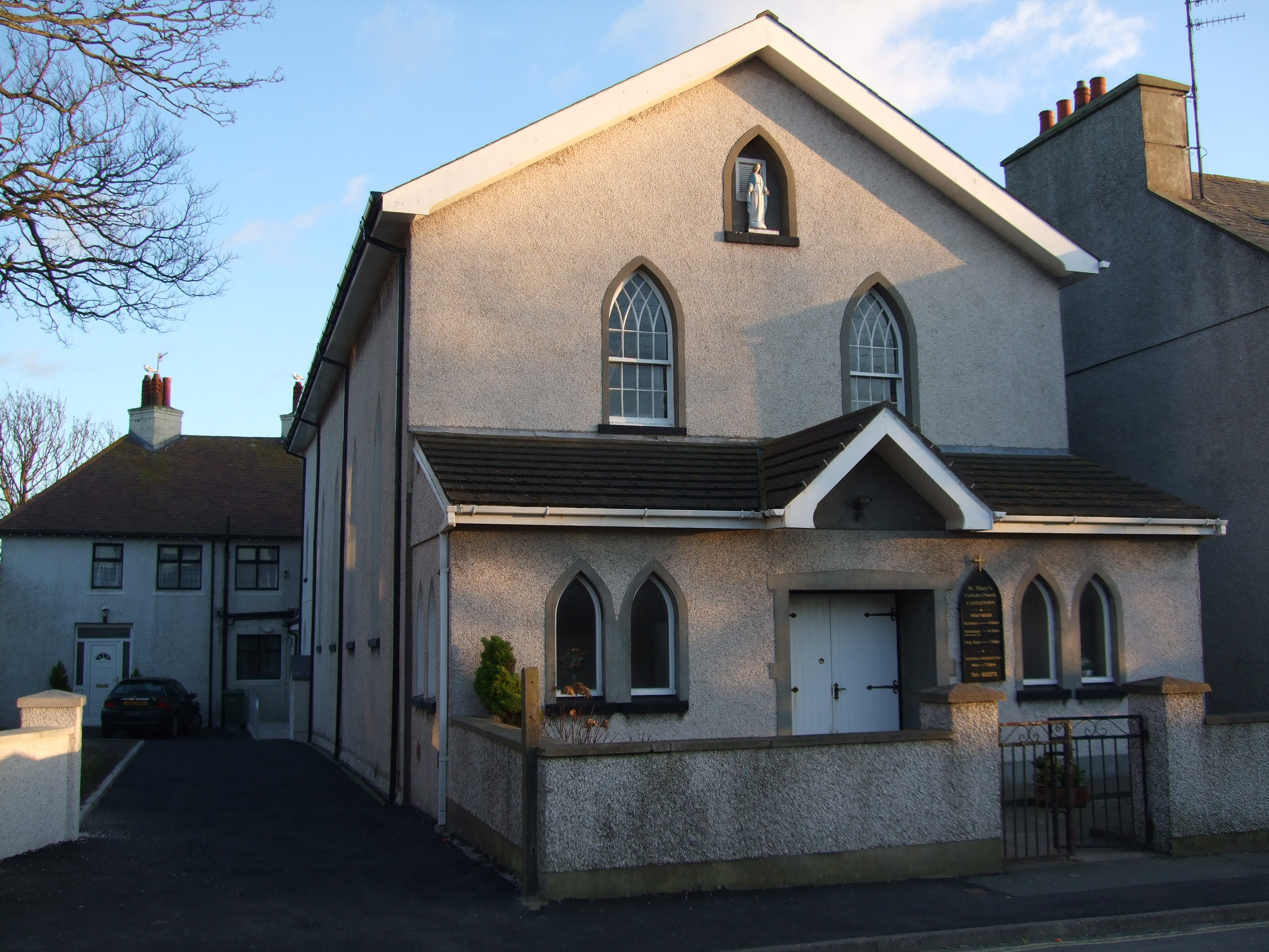 St Mary's Catholic Church Bowling Green Road Castletown